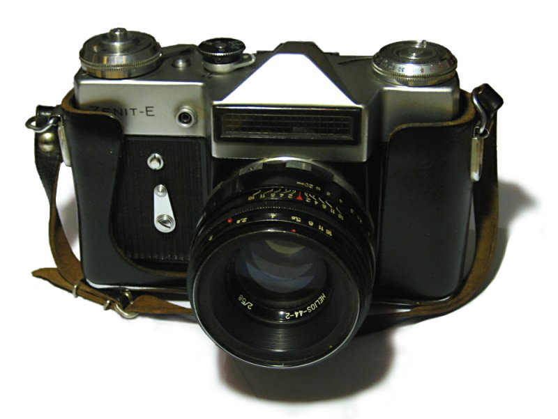 A Russian Zenit E SLR Camera, built 1971.